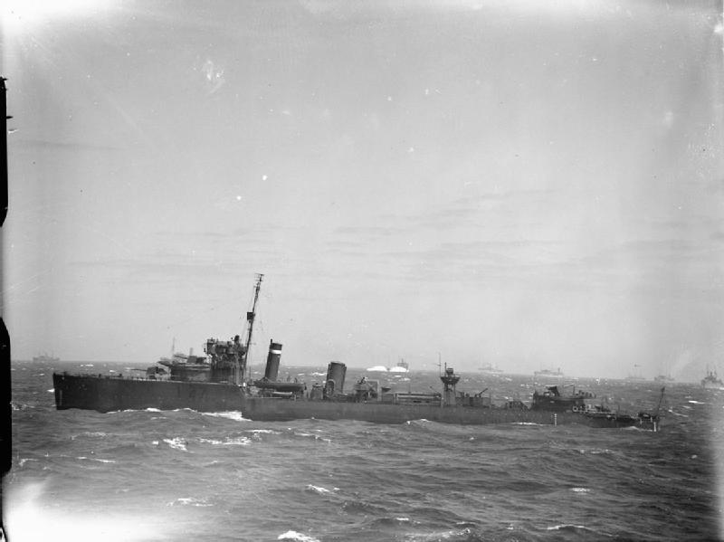 The Royal Navy during the Second World War HMS WALKER underway in a choppy sea.